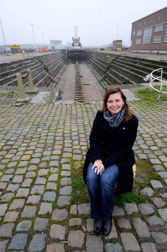 Güler Turan